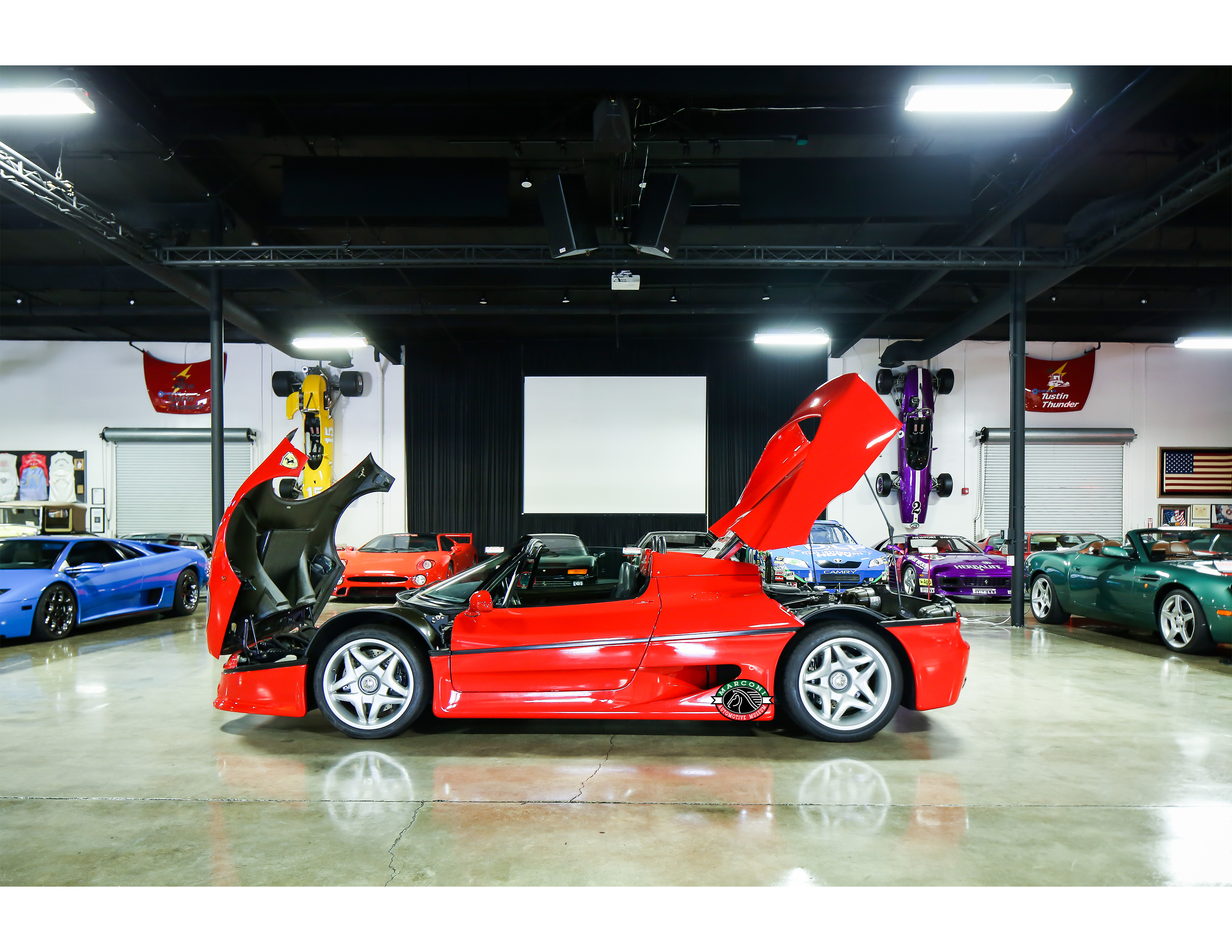 This Ferrari F50 sits in the Marconi Automotive Museum in Tustin, California.